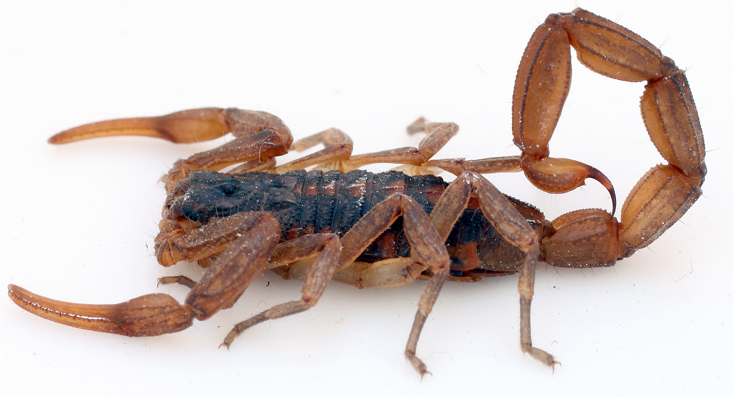 Good old Mexican scorpion, taken in Leon, Guanajuato, Mexico, the world´s capital of scorpion stingsª. Alacrán del estado de Guanajuato, México. (probably misidentified)